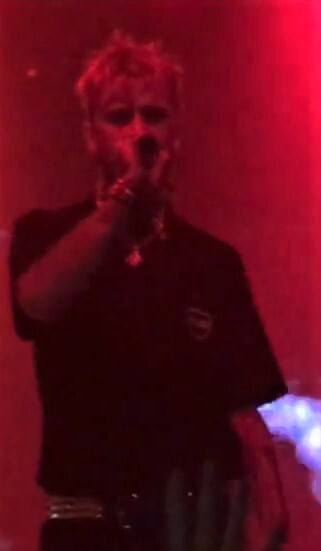 Lil Peep performing in Toronto in November 2017 as part of the Come Over When You're Sober Tour